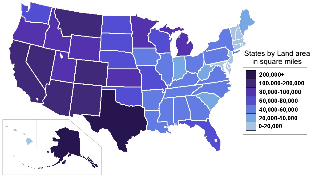 Image shows the 50 states by area. Check the legend for more details.